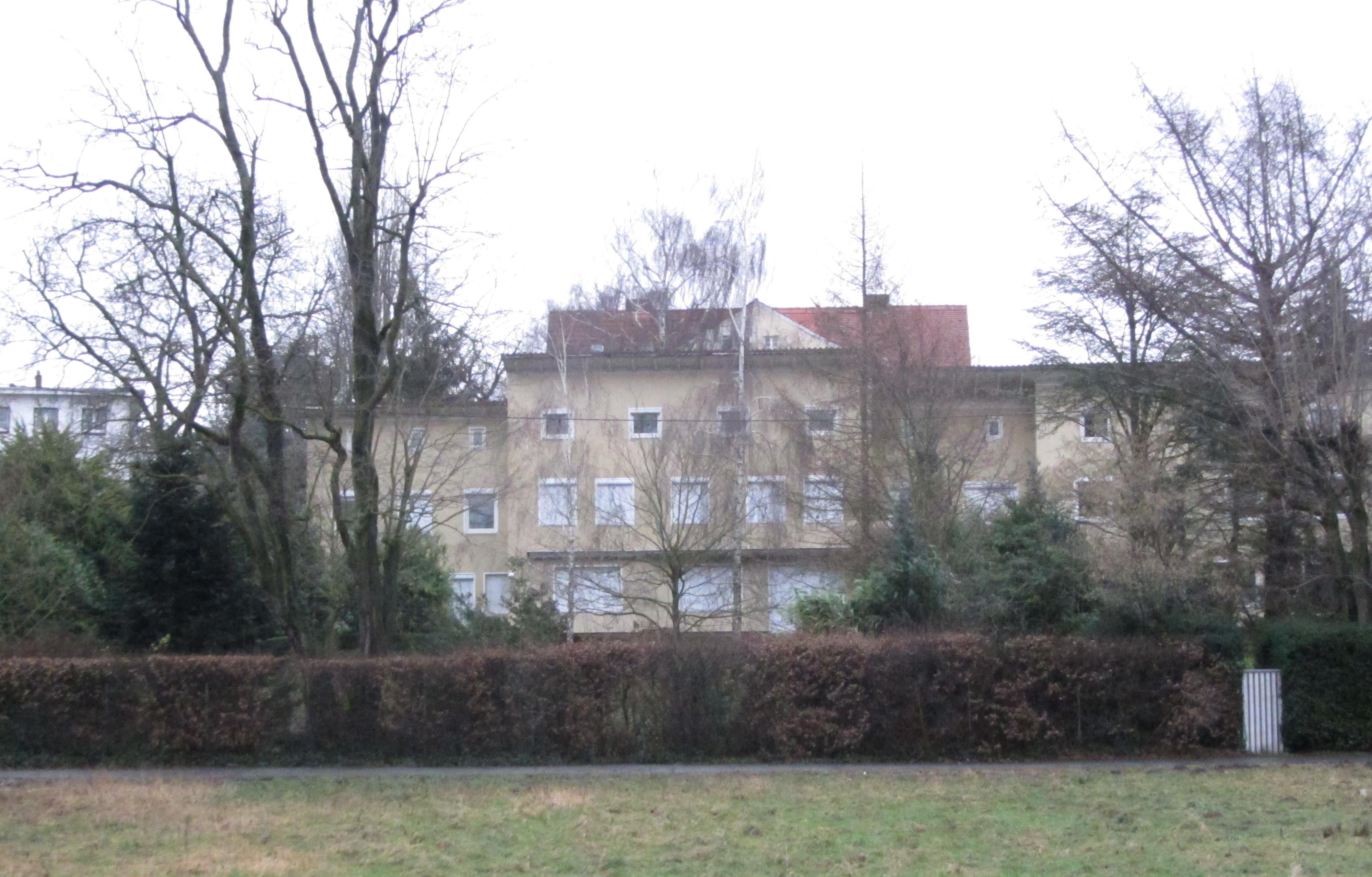 Built as residens of the president of the in 1950/51 designed by architects Meid & Romeick. Classified as cultural heritage monument by the city of Frankfurt